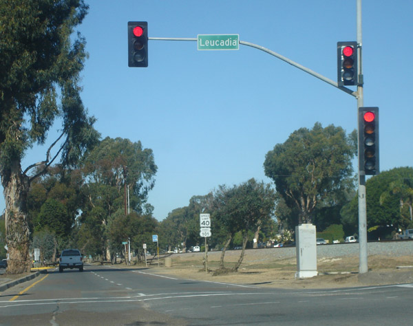 Photograph taken by me 1/20/06. Also on